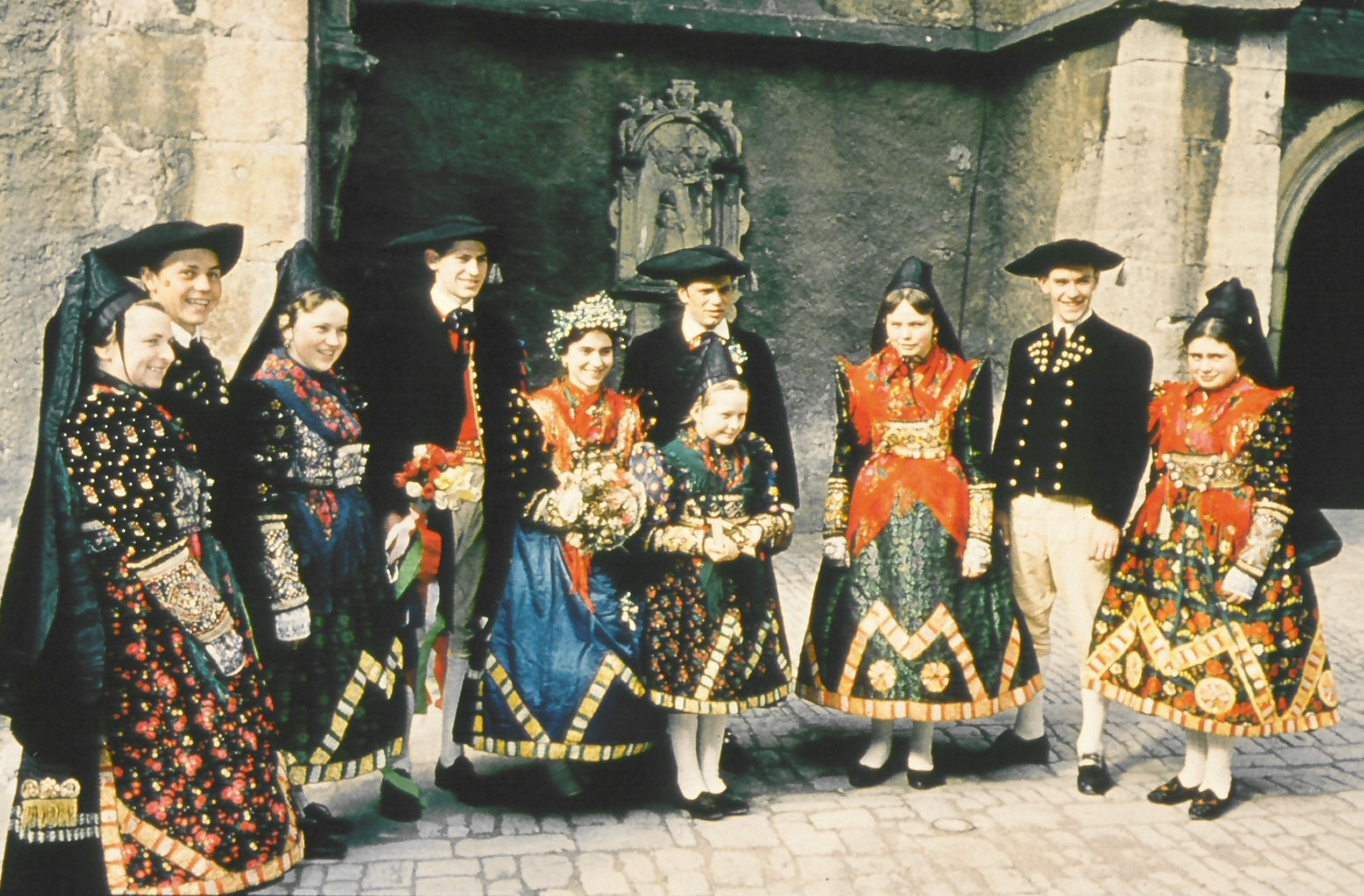 Ochsenfurt, Germany: local costumes (Ochsenfurter Tracht), 1960